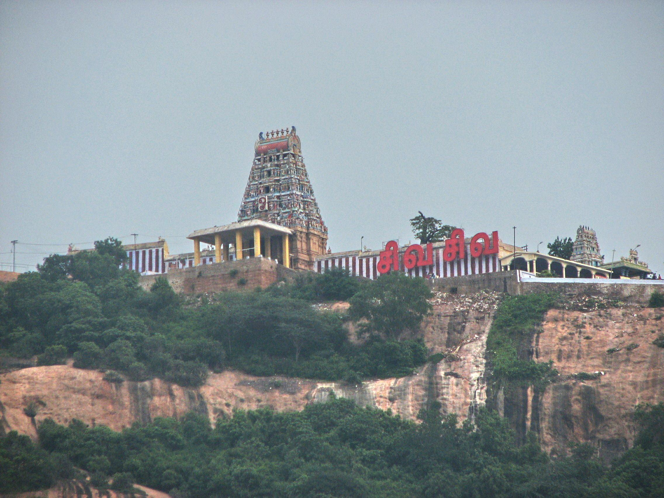 Thiruchengode Sivan temple. (Tamil Nadu, India)